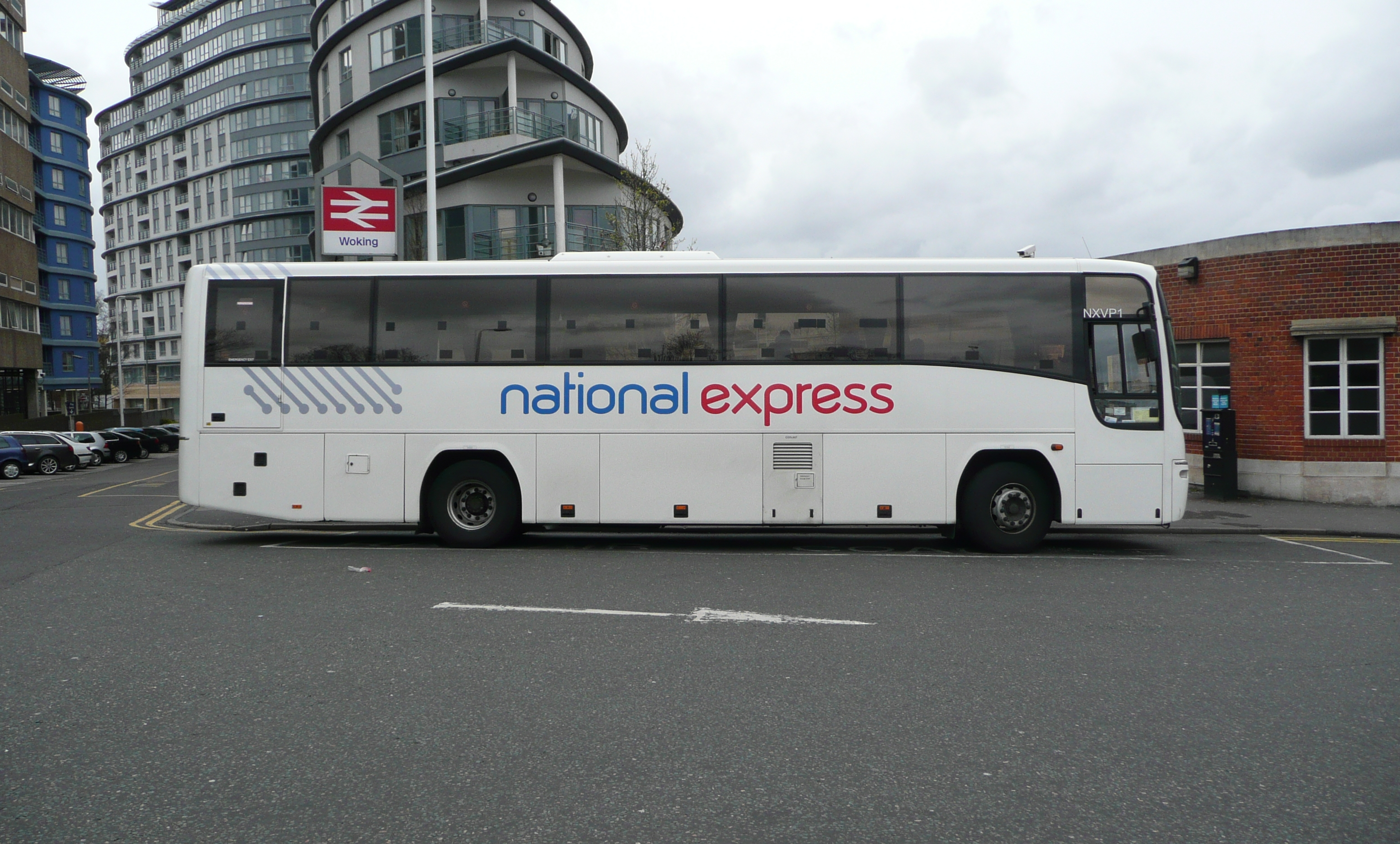 A National Express coach at Woking station. It is number NXVP1 (SP04 HRL).